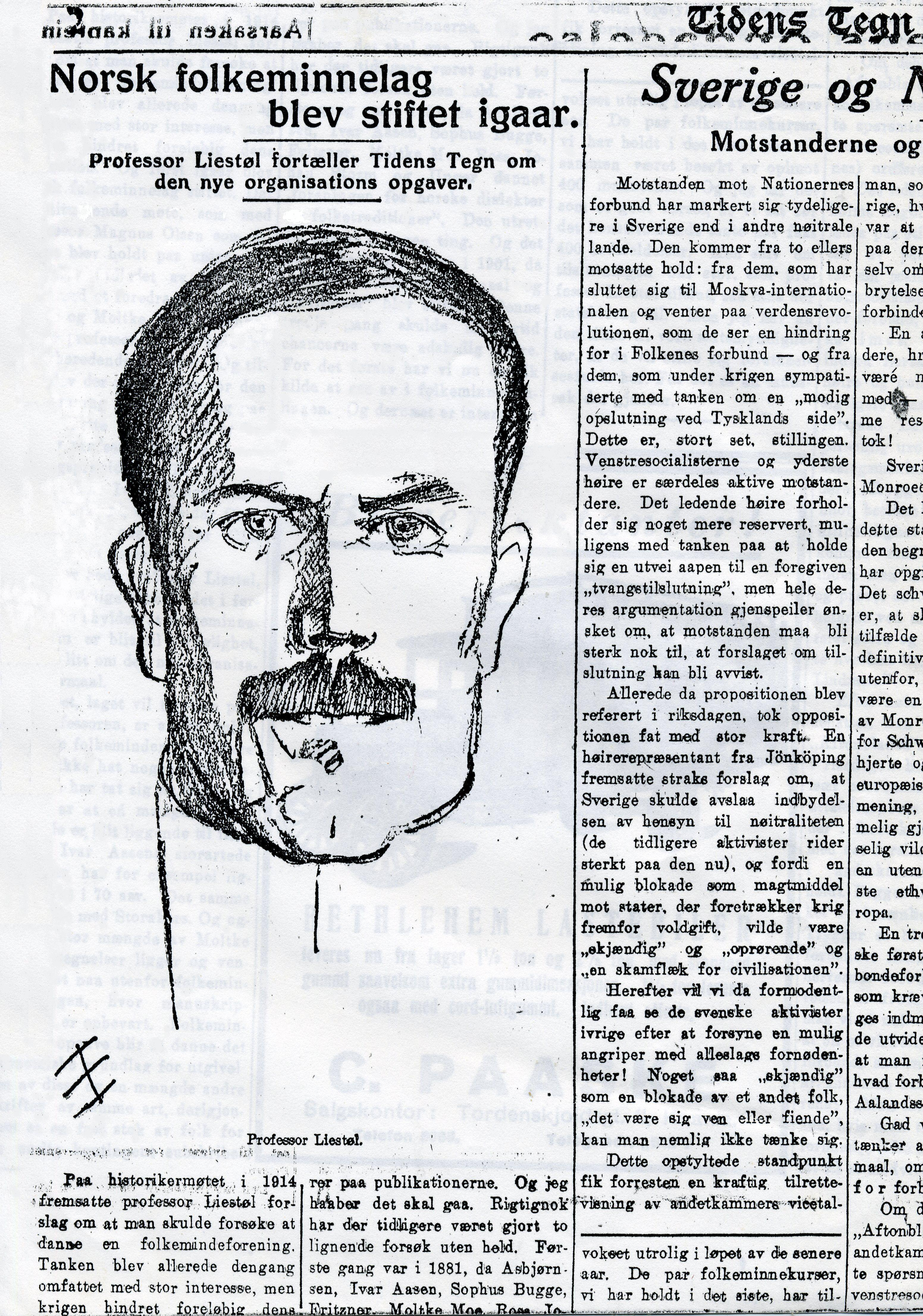 From the newspaper Tidens Tegn in 1920